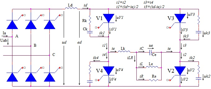 Schematic circuit of thyristor converter for 5-th generations induction heaters